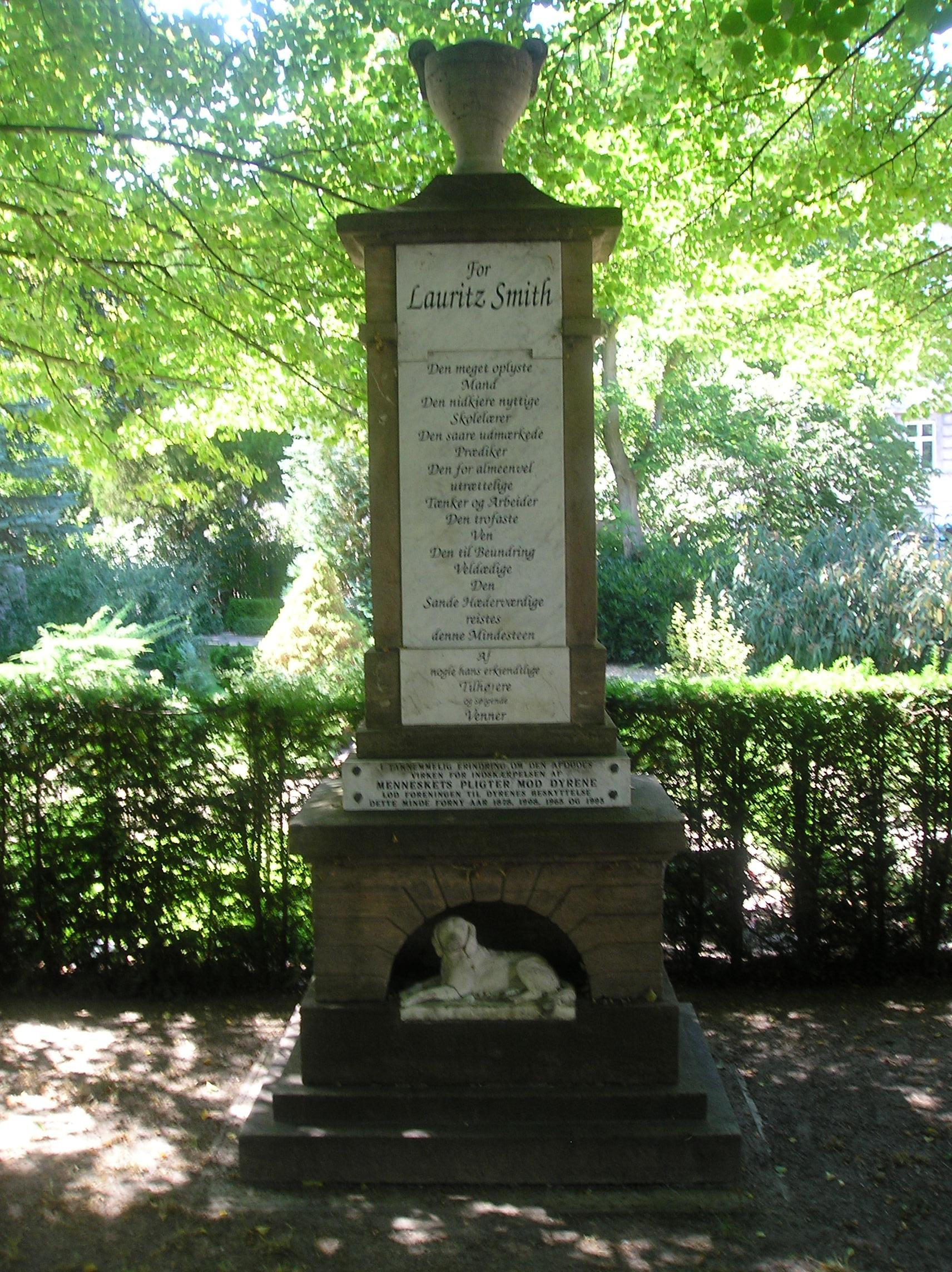 Monument for priest Lauritz Smith on Holmens Kirkegård (Holmens graveyard) in Copenhagen. Raised by friends after his dead in 1794.